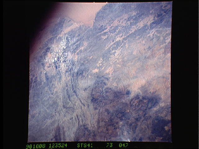 Satellite photograph of Serra la Chela, Angola